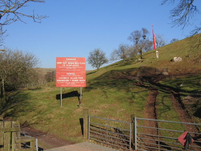 No Go Area The sign with the red flag flying at the entrance to the Sennybridge military training area effectively means no access to the upper Nant Bran valley today.